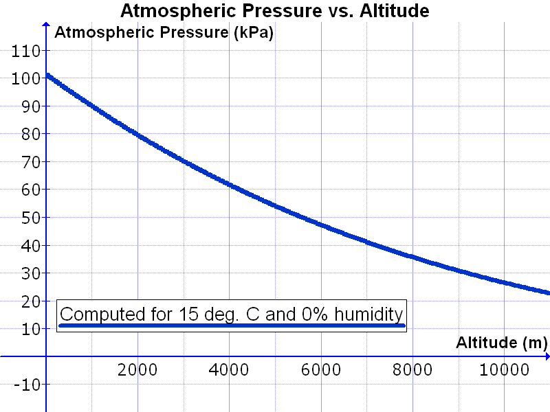 Graph of atmospheric pressure (in kPa) vs. altitude above sea level (in meters). Based on an equation from the CRC manual, a temperature of 15 deg. C and a relative humidity of 0%.